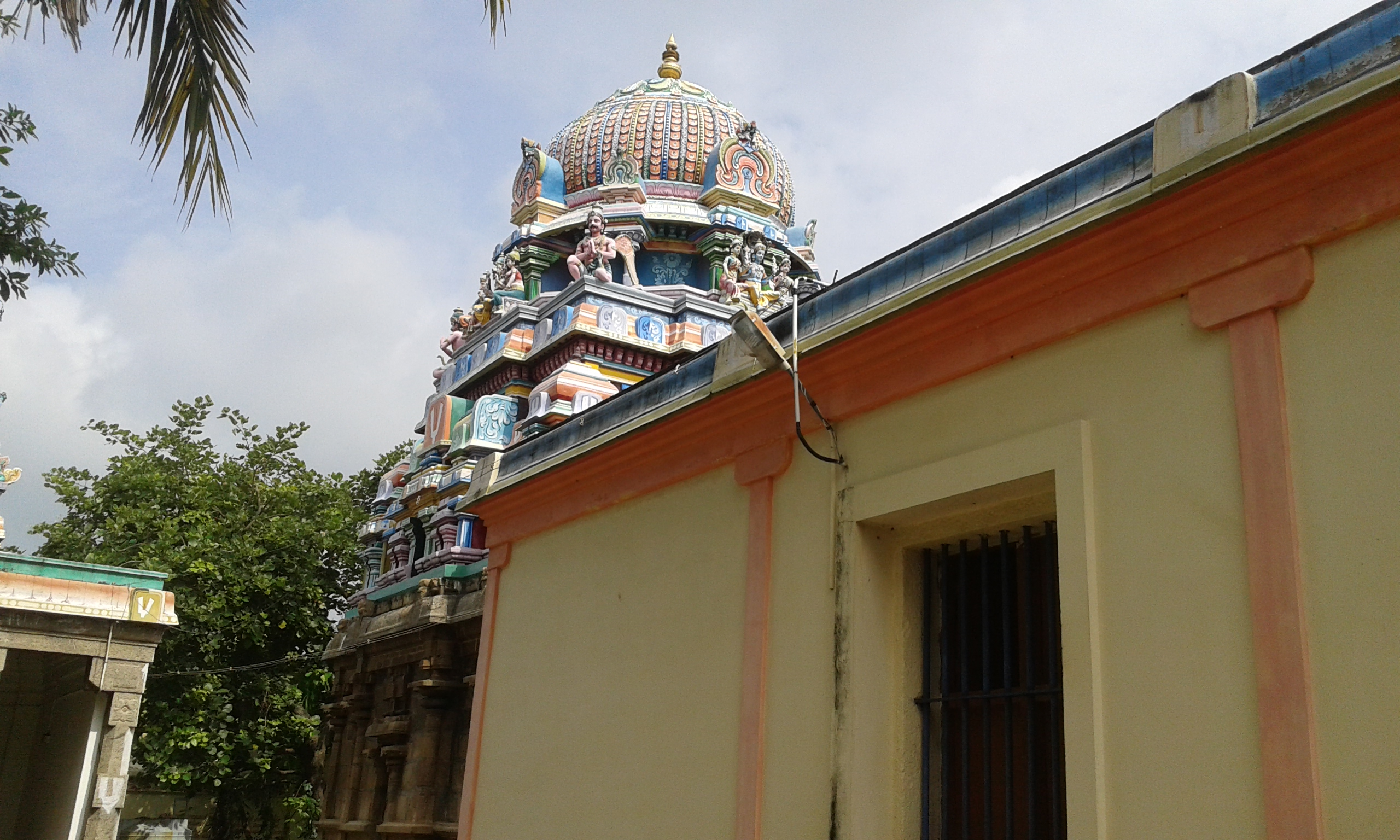 Arimeya Vinnagaram - Kuamadukoothan